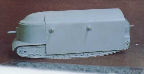 A 1/48 scale model of the Flying Elephant at Bovington tank Museum, Dorset, England.